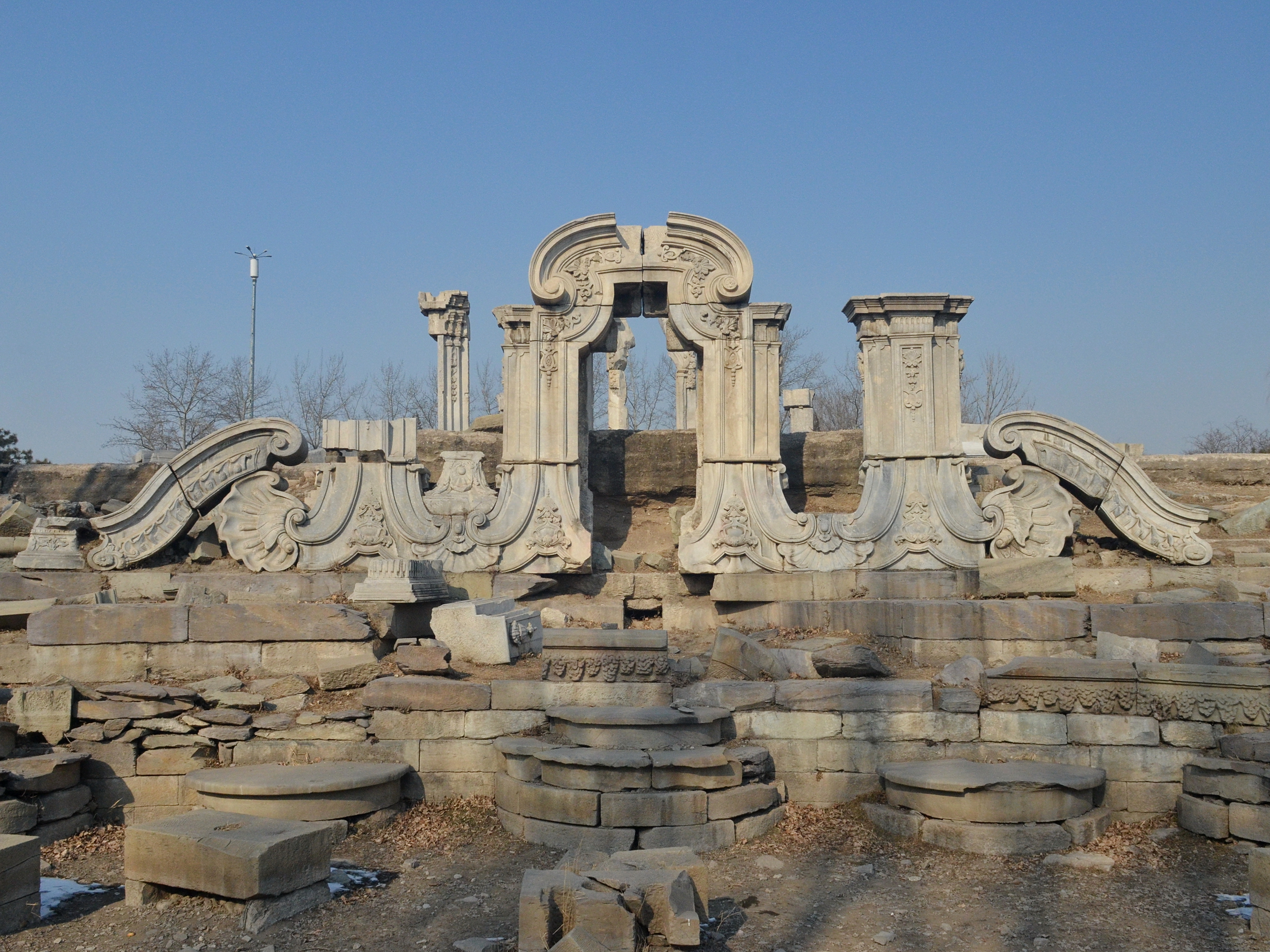 Ruins of Dashuifa.